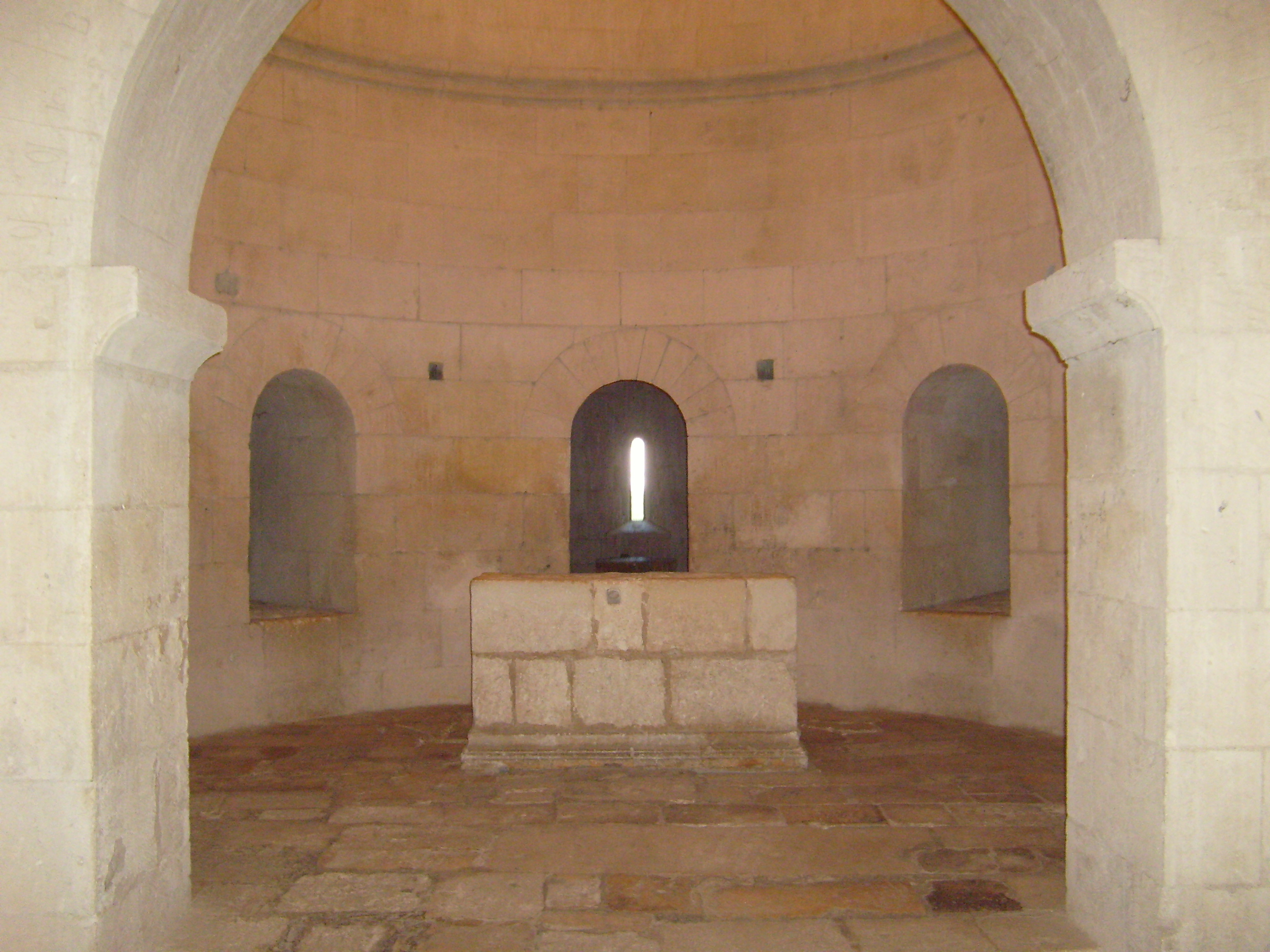 Montmajour Abbey, the Crypt of St. Benedict rotunda